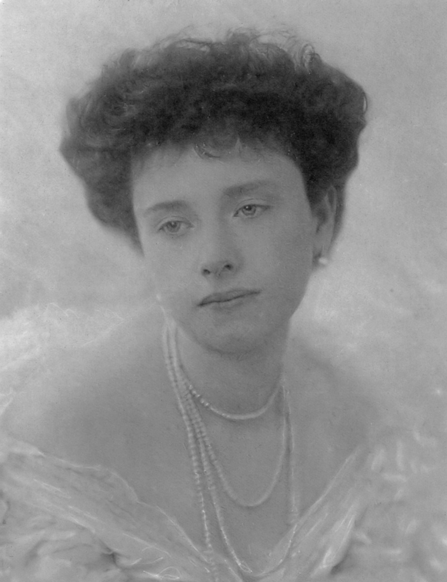 Gertrud Felsöványi circa 1902